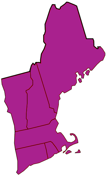 Map of same-sex marriage rights in New England